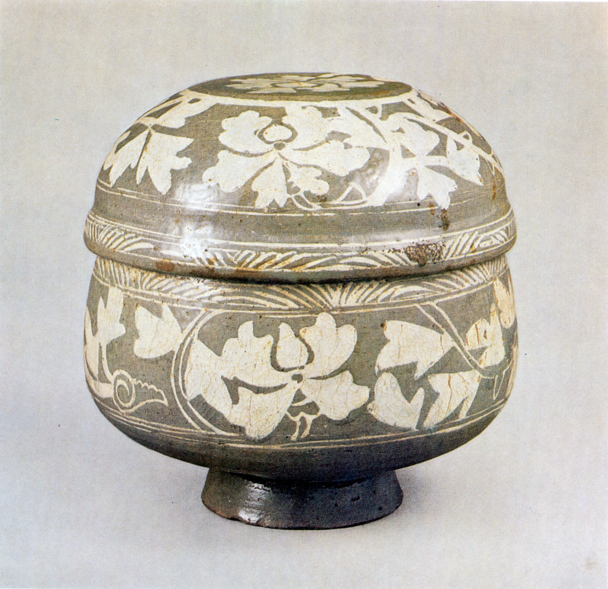 Buncheong Lidded Bowl with Inlaid Peony Design